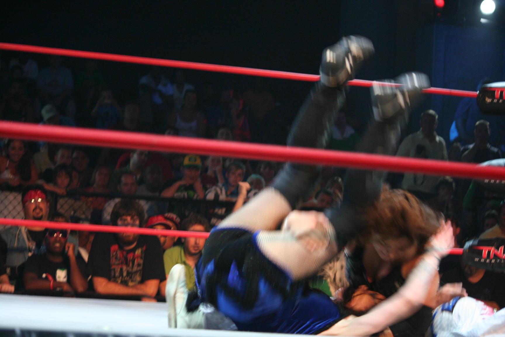 Professional wrestler Ayako Hamada performing a Hamada Driver on Daffney at a TNA Impact! taping